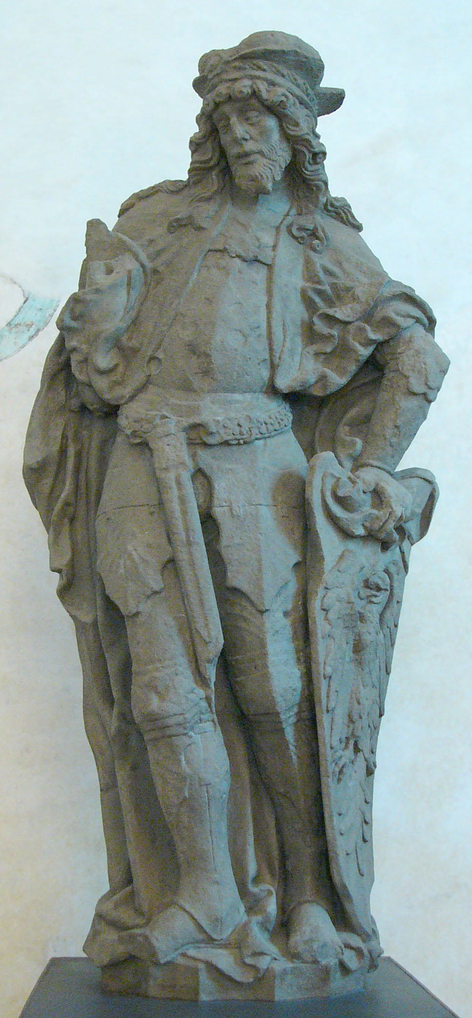 Sandstone statue (height 205 cm) by unknown author from Olomouc around 1500 of Wenceslaus I, Duke of Bohemia in Olomouc (Czech Republic). Photo without flash and without tripod.